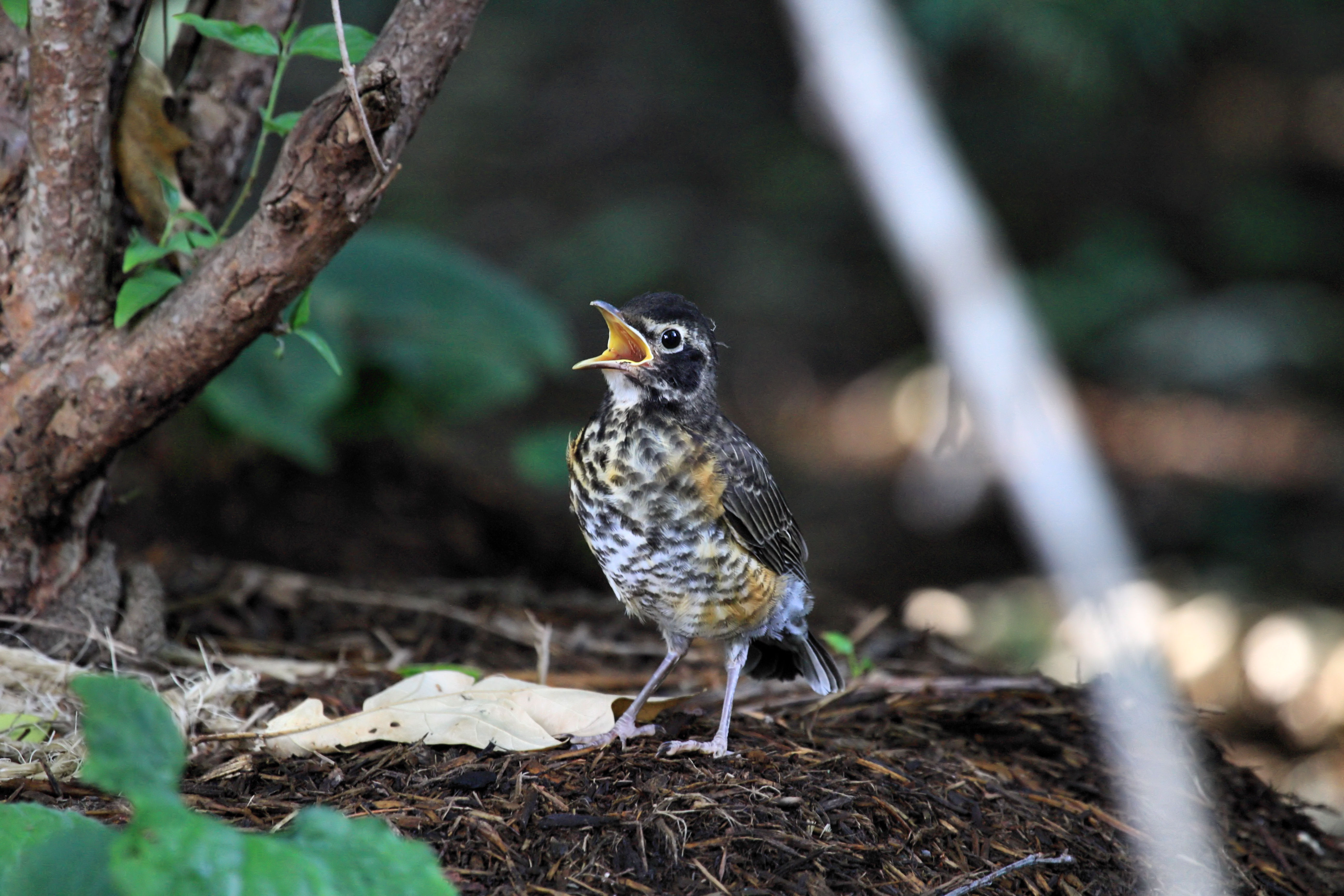 A juvenile American Robin at Smithsonian National Zoological Park, Washington, USA.